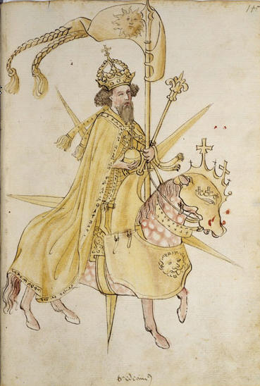 Sigismund of Luxembourg